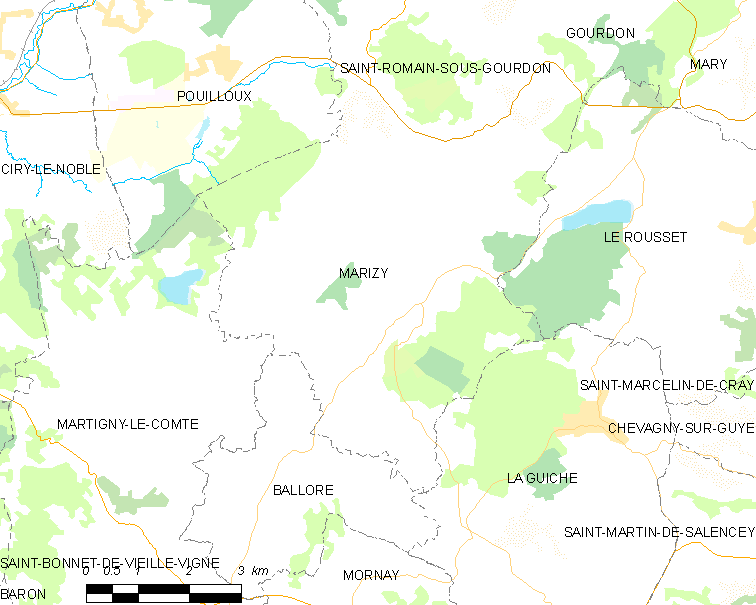 Map of French municipality